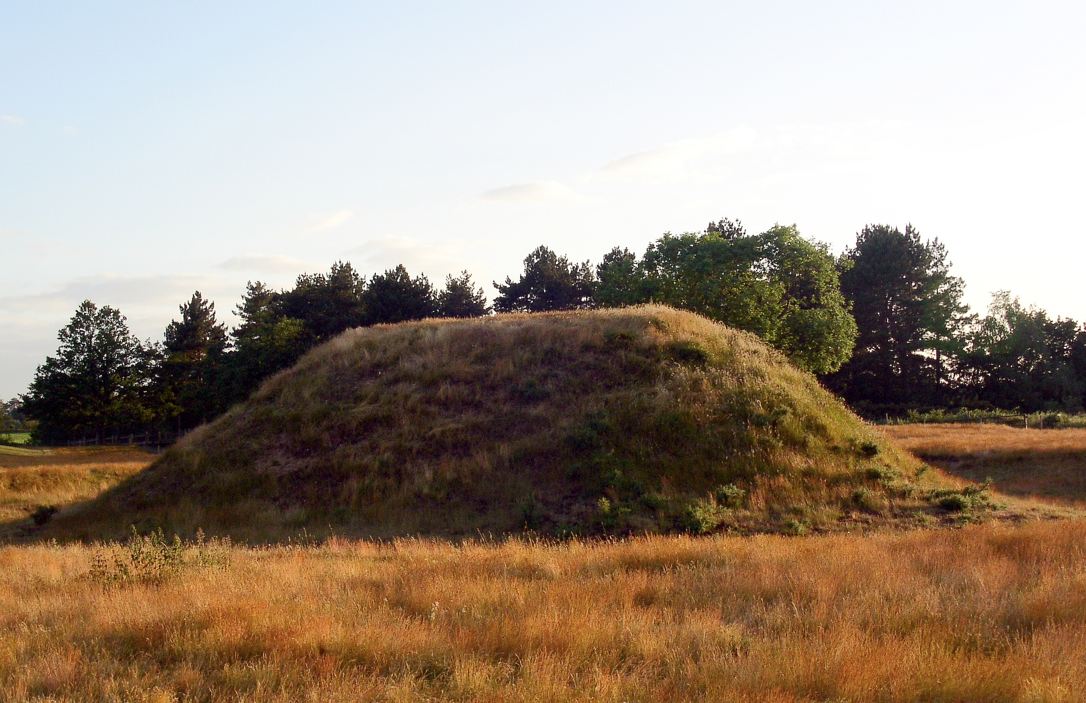 Burial mound 2 at Sutton Hoo, Suffolk, UK. The photo was taken close to sunset on 21 June 2006 (day of the Summer Solstice). This mound has been reconstructed to its supposed original height.